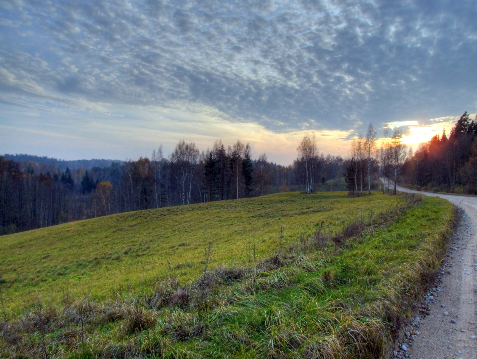 Colors of Kurland